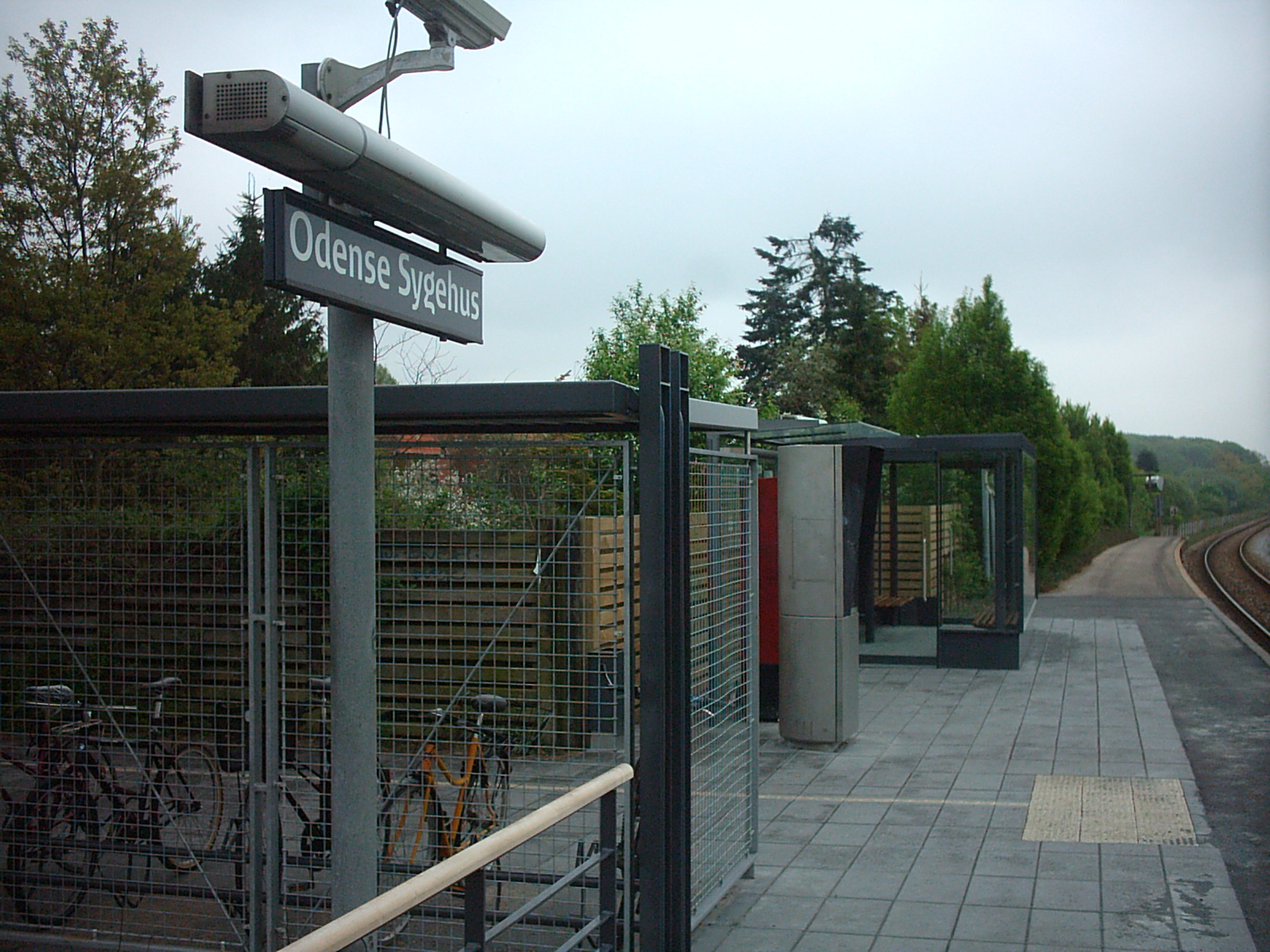 Odense Sygehus Station, a train station on the railway between Odense and Svendborg, Denmark.